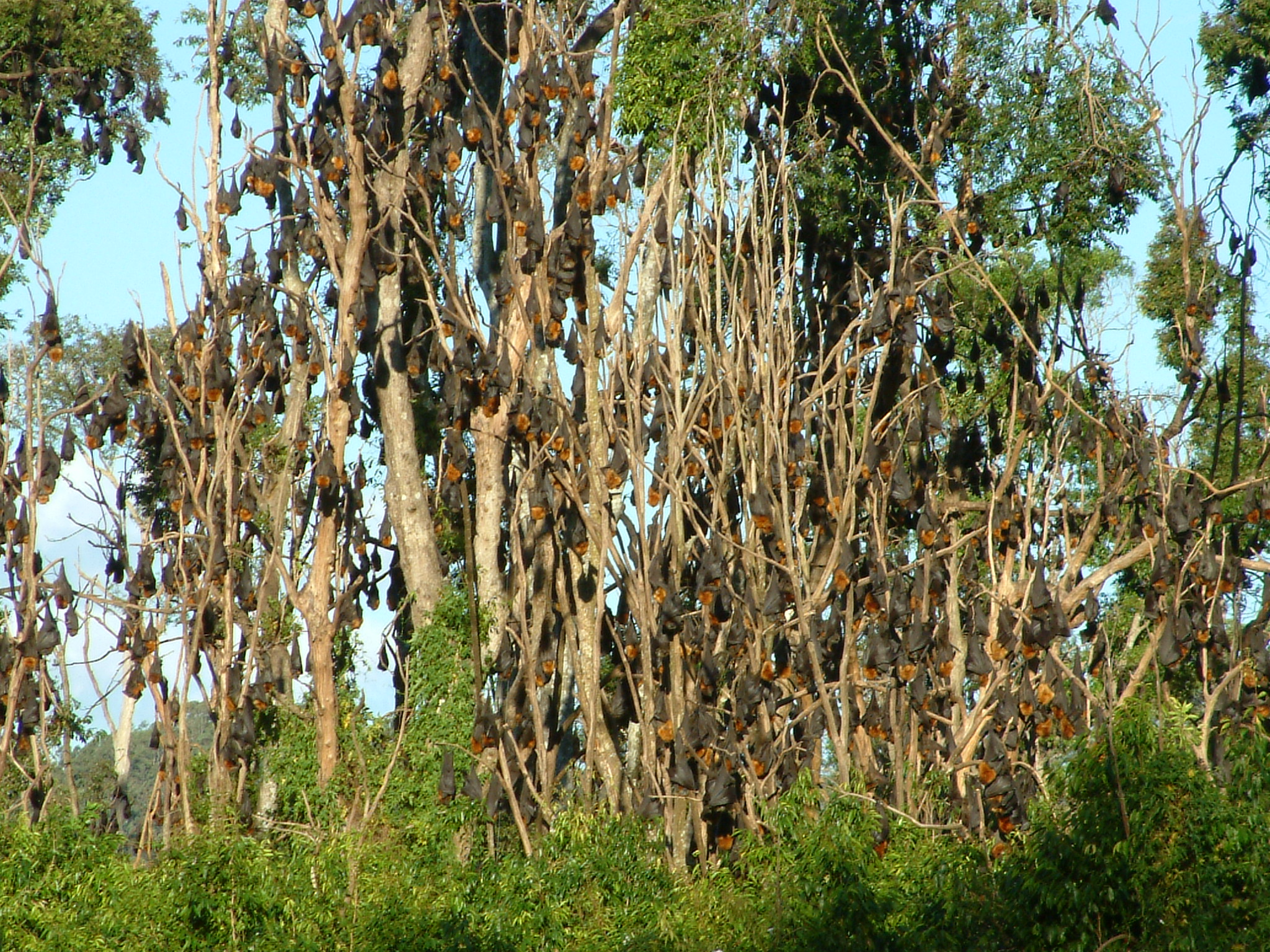 This is a photo of the centre of the former Dallis Park colony. The colony no longer exists because the roosting trees have been illegally logged.